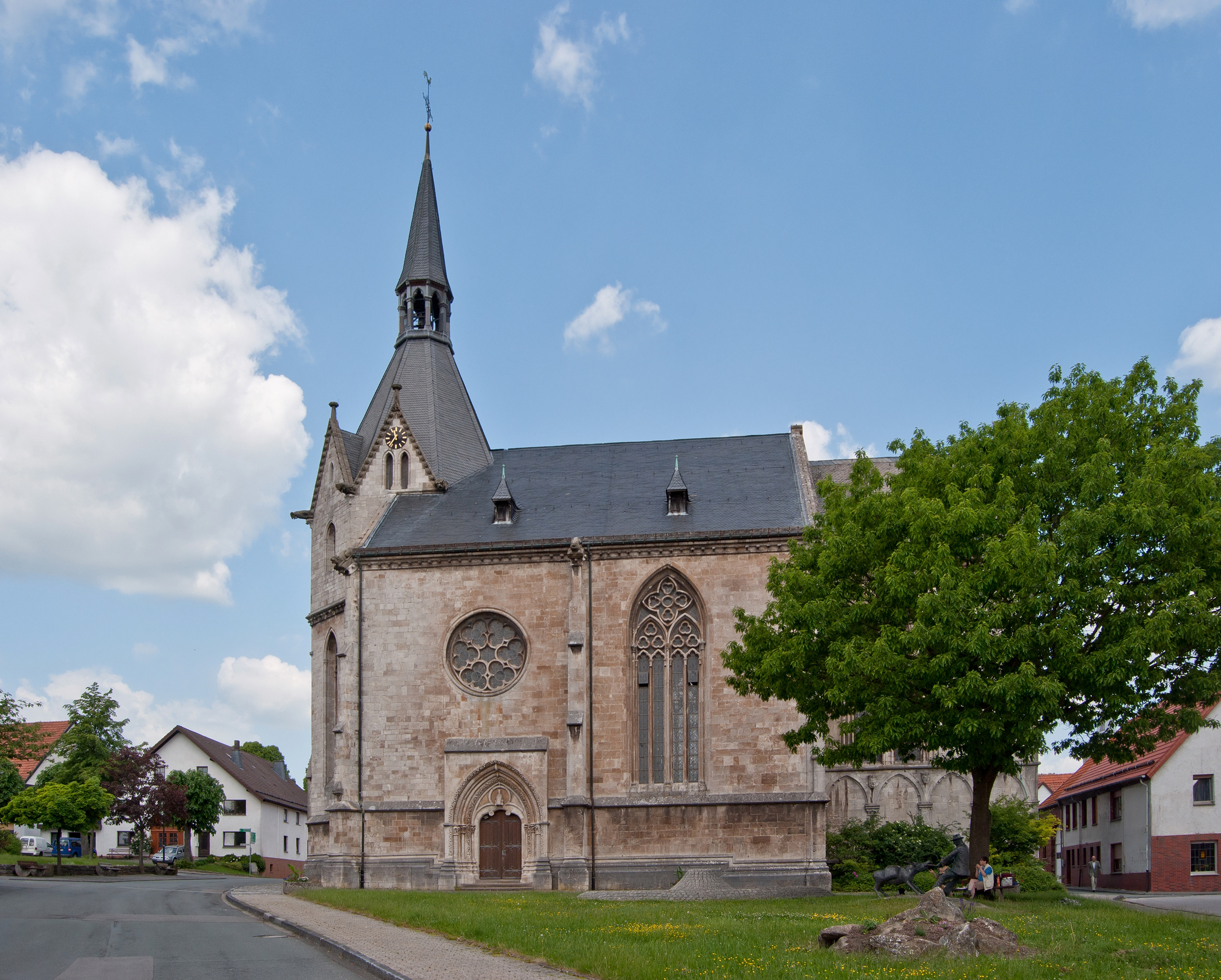 Marsberg (North Rhine-Westphalia, Germany) – district Obermarsberg – Catholic Saint Nicholas Church This image shows a heritage building in Germany, located in the North Rhine-Westphalian city Marsberg (no. 36). This photograph was taken with a Nikon D3000